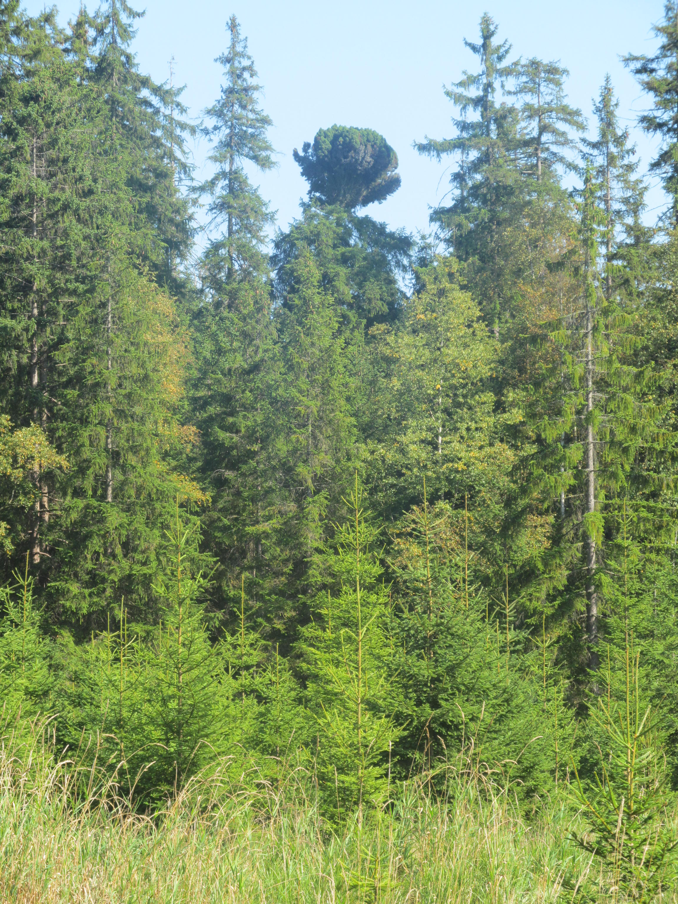 Witch's broom in Kladsko